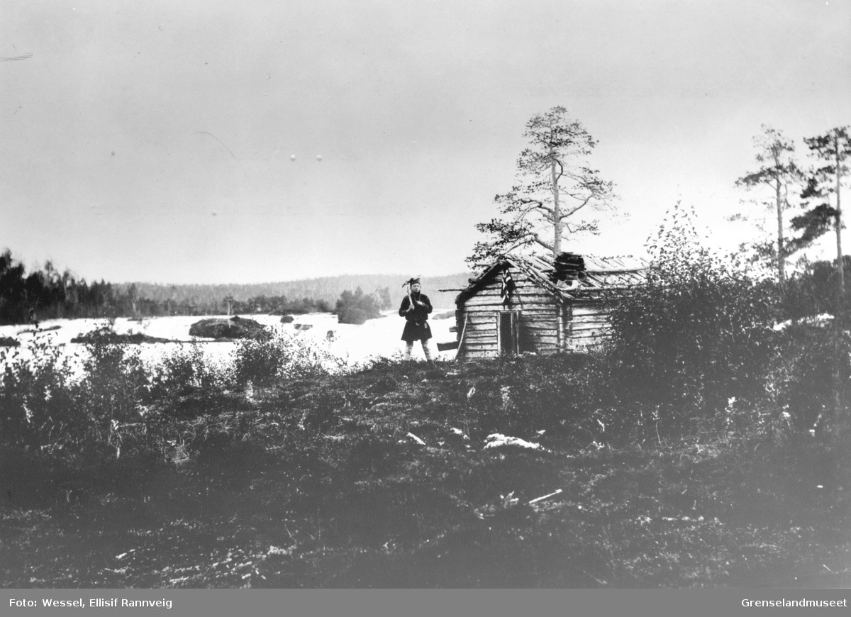 Skolt Sami at the Pasvik River, 1896. Photo:Ellisif Wessel Digitalmuseum ID 021015804700